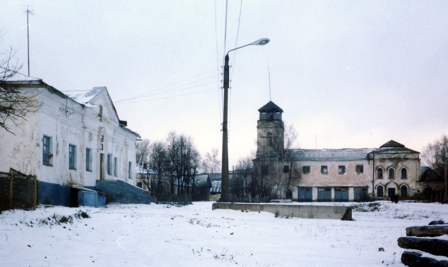 At centre of town